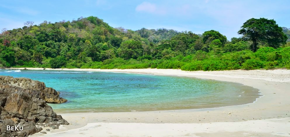 The right side of Wedi Ireng Beach